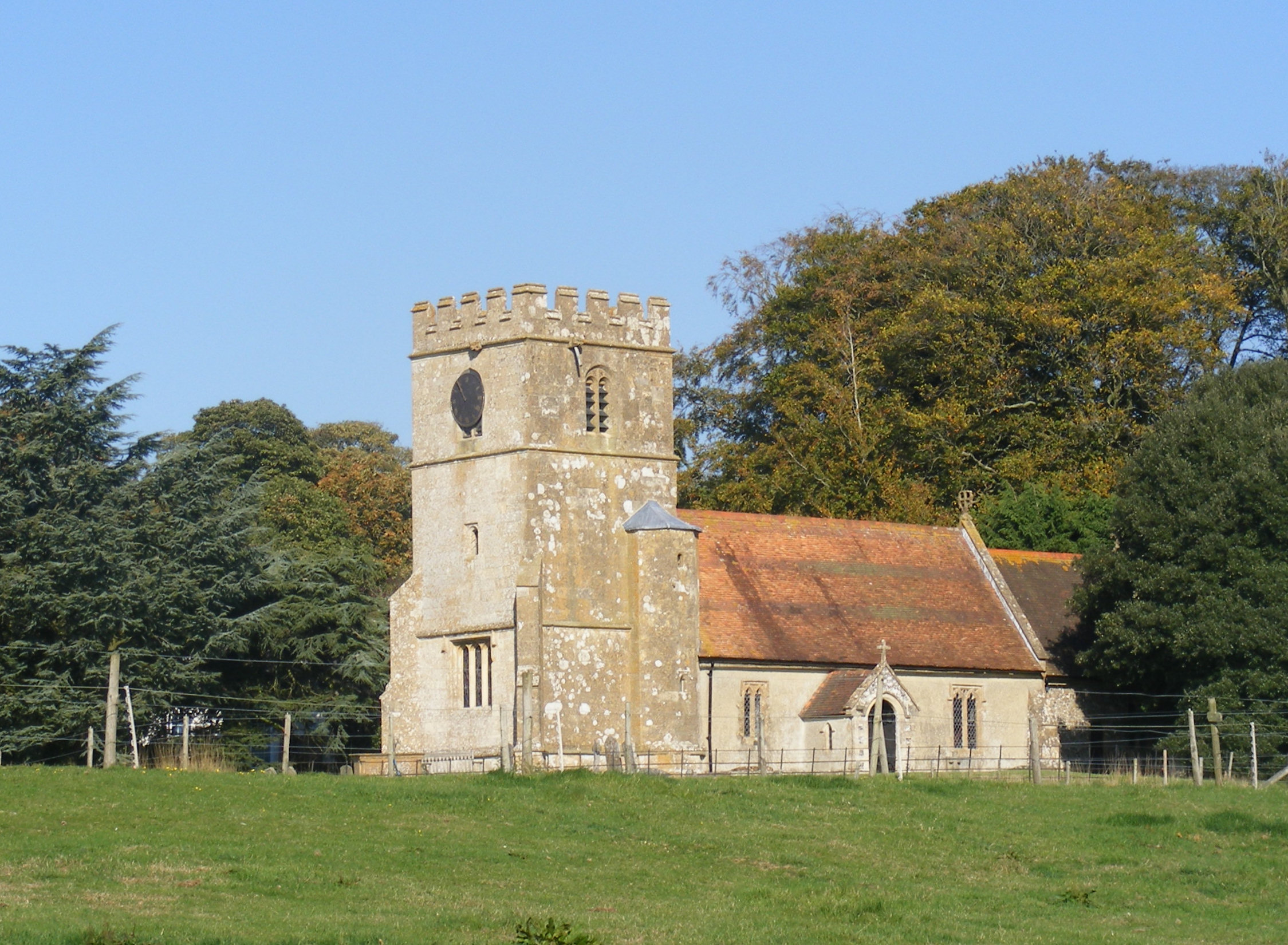 All Saints' parish church, Farnborough, Berkshire, seen from the southwest